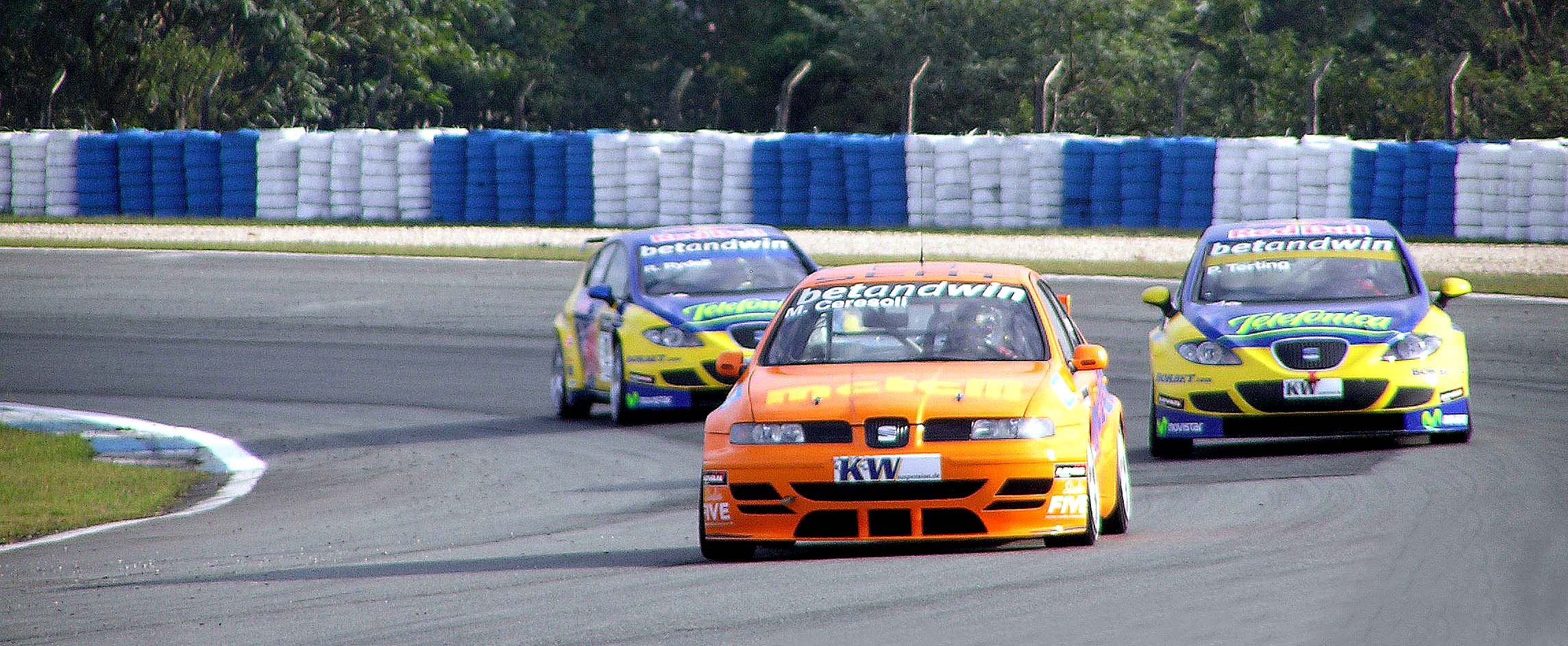 World Touring Car Championship 2006 Curitiba, Free PracticeMaurizio Ceresoli (orange car, GR Asia - SEAT Toledo Cupra)Peter Terting (SEAT Sport Deutschland - SEAT León)Rickard Rydell (SEAT Sport Sverige - SEAT León)